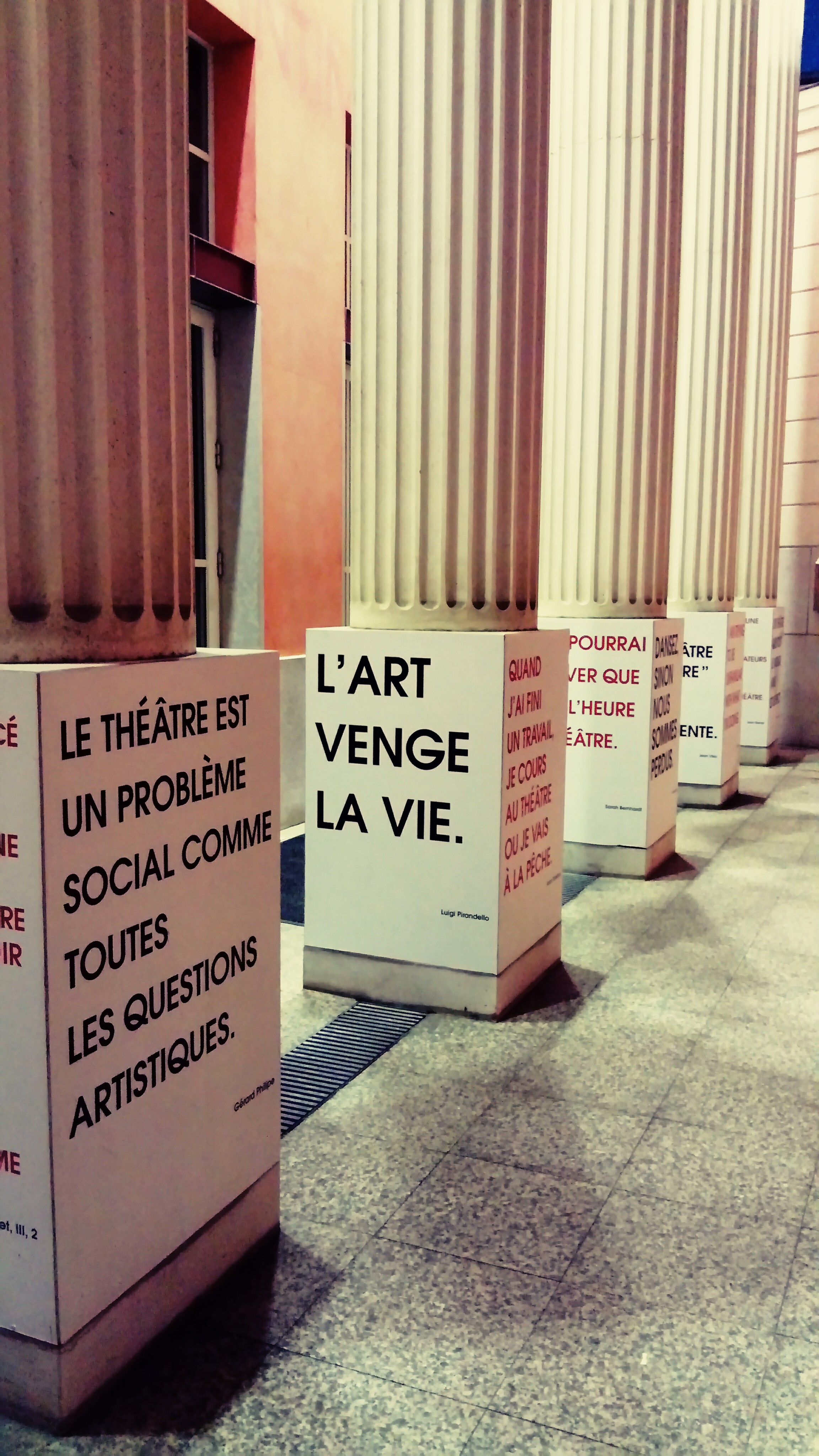 Pillars of the front of the Théâtre des Abbesses (Paris), decorated with quotations from playwrights, actors and directors.